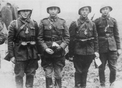 A capitan and NCOs of the 8th Cavalry Brigade after receiving the Iron Cross.Crimea, 7 January 1942. Crusoveanu I. Marcu is the second from right